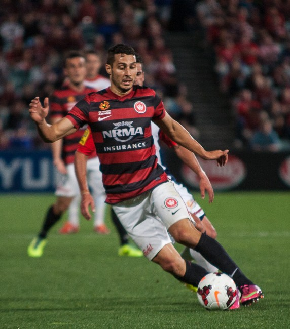 Adam D'Apuzzo plays for the Western Sydney Wanderers